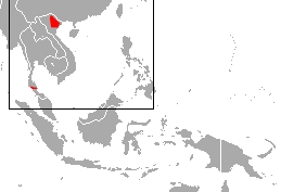 Lesser Great Leaf-nosed Bat (Hipposideros turpis) range